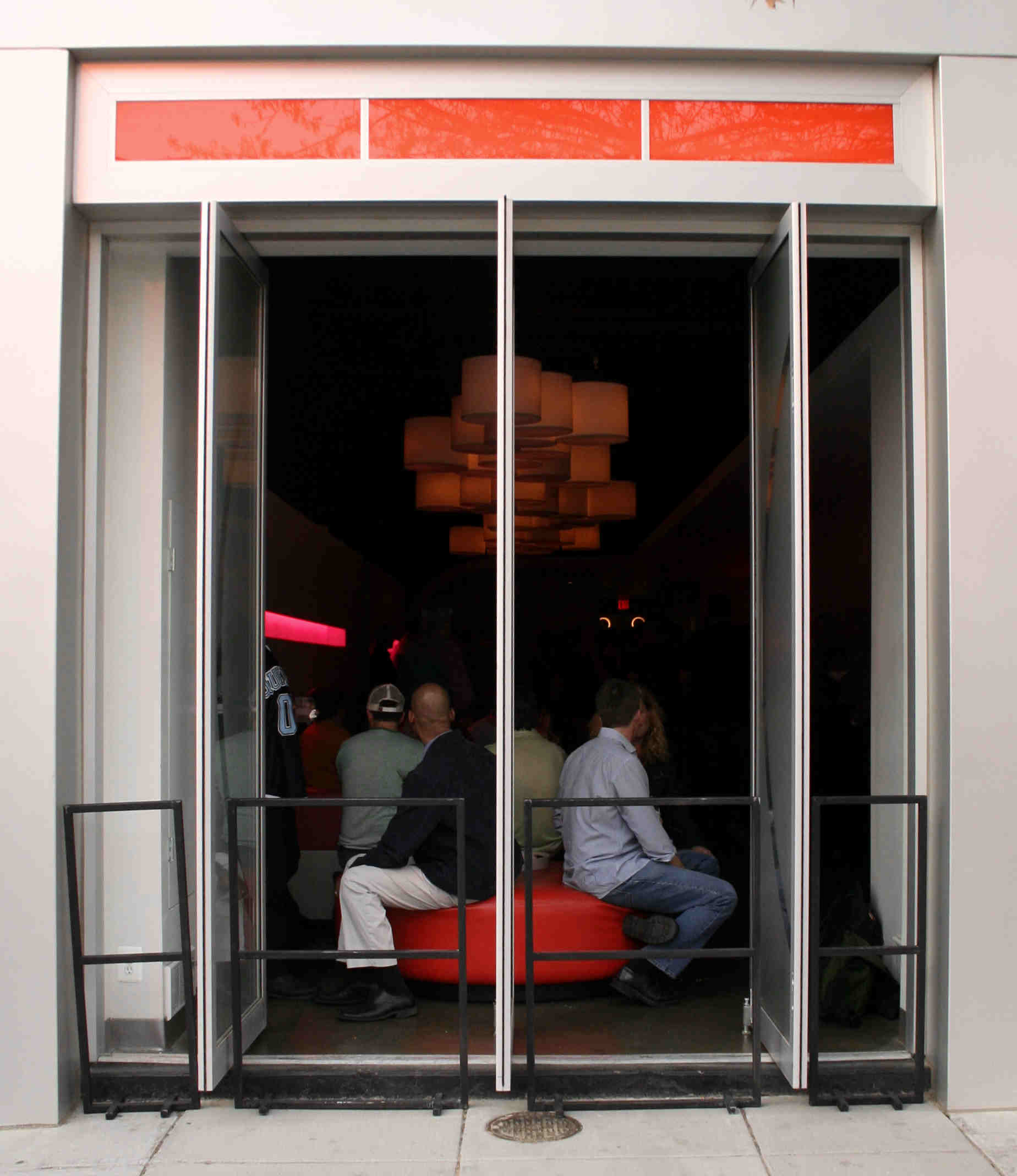 Mova, formerly known as Halo, located at 1435 P Street, N.W., in the Logan Circle neighborhood of Washington, D.C.